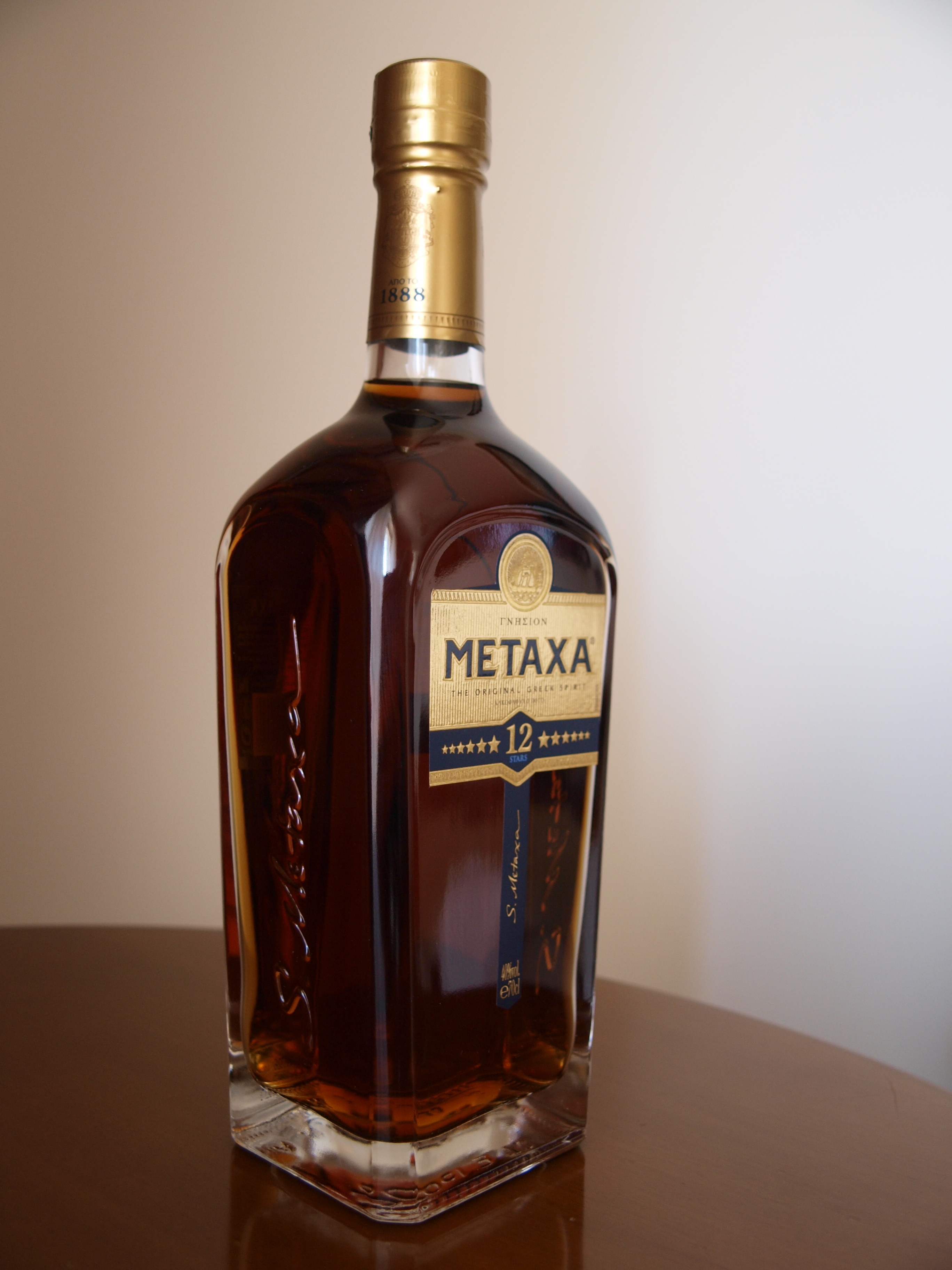 Metaxa 12 stars bottle: Smoothness Defined